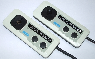 SG-1000 Mark III joypads